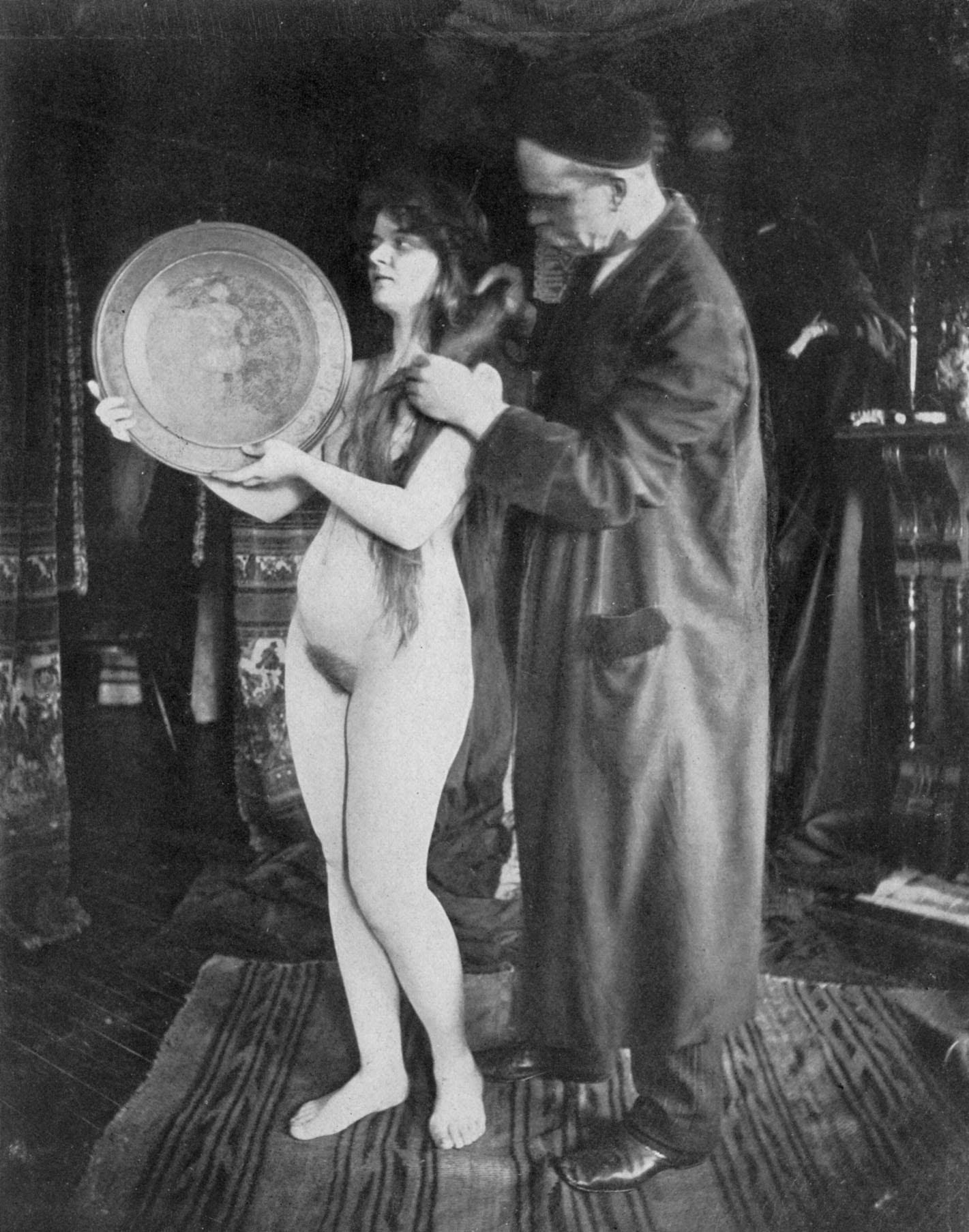 Photo from Robert Wilson Shufeldt's book Studies of the human form for artists, sculptors, and scientists showing the author with one of his models.